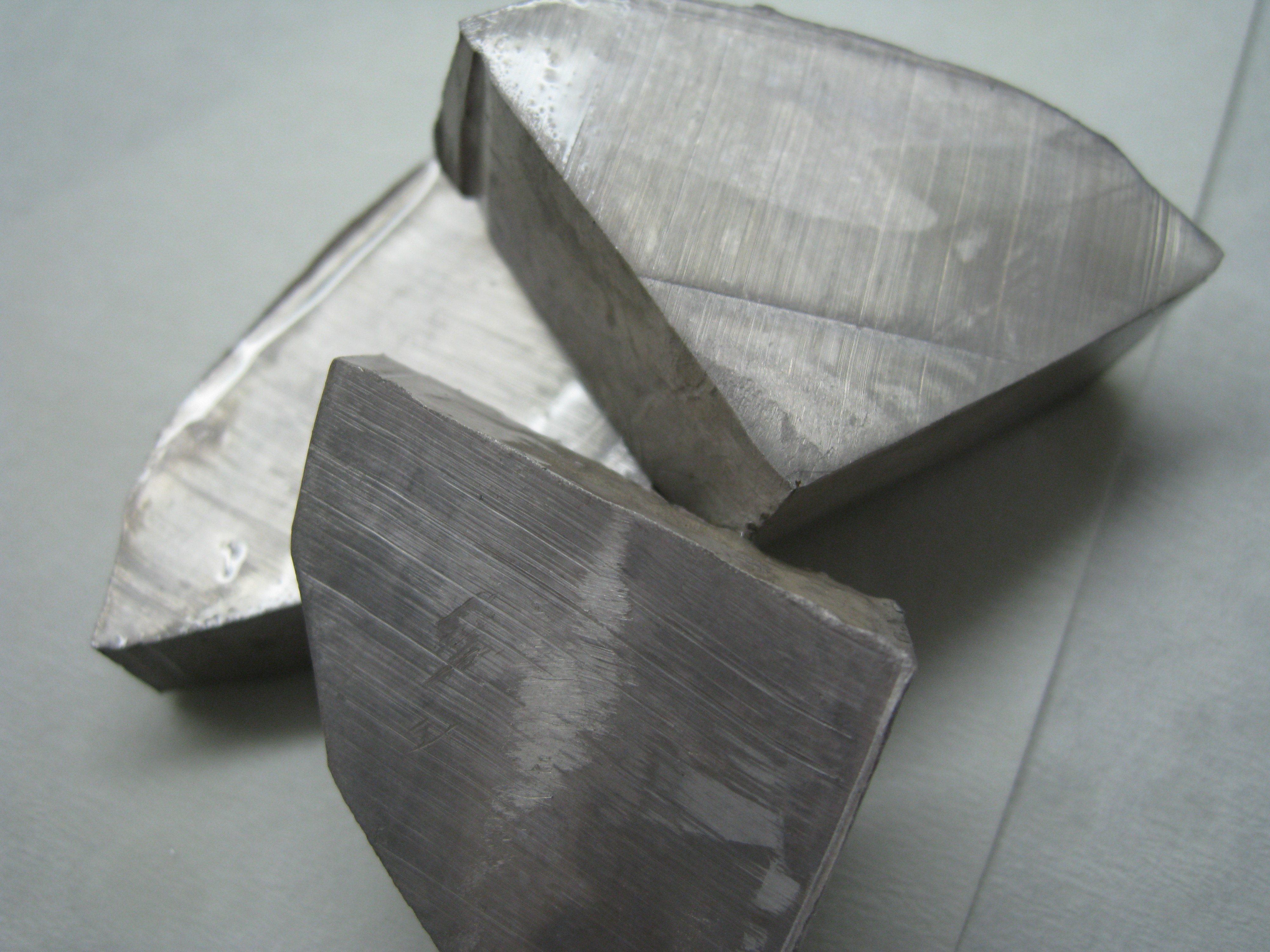 Sodium metal from the Dennis s.k collection. Selfmade photo.